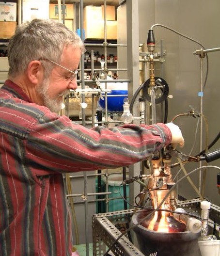 Professor Phil Shevlin making atomic carbon